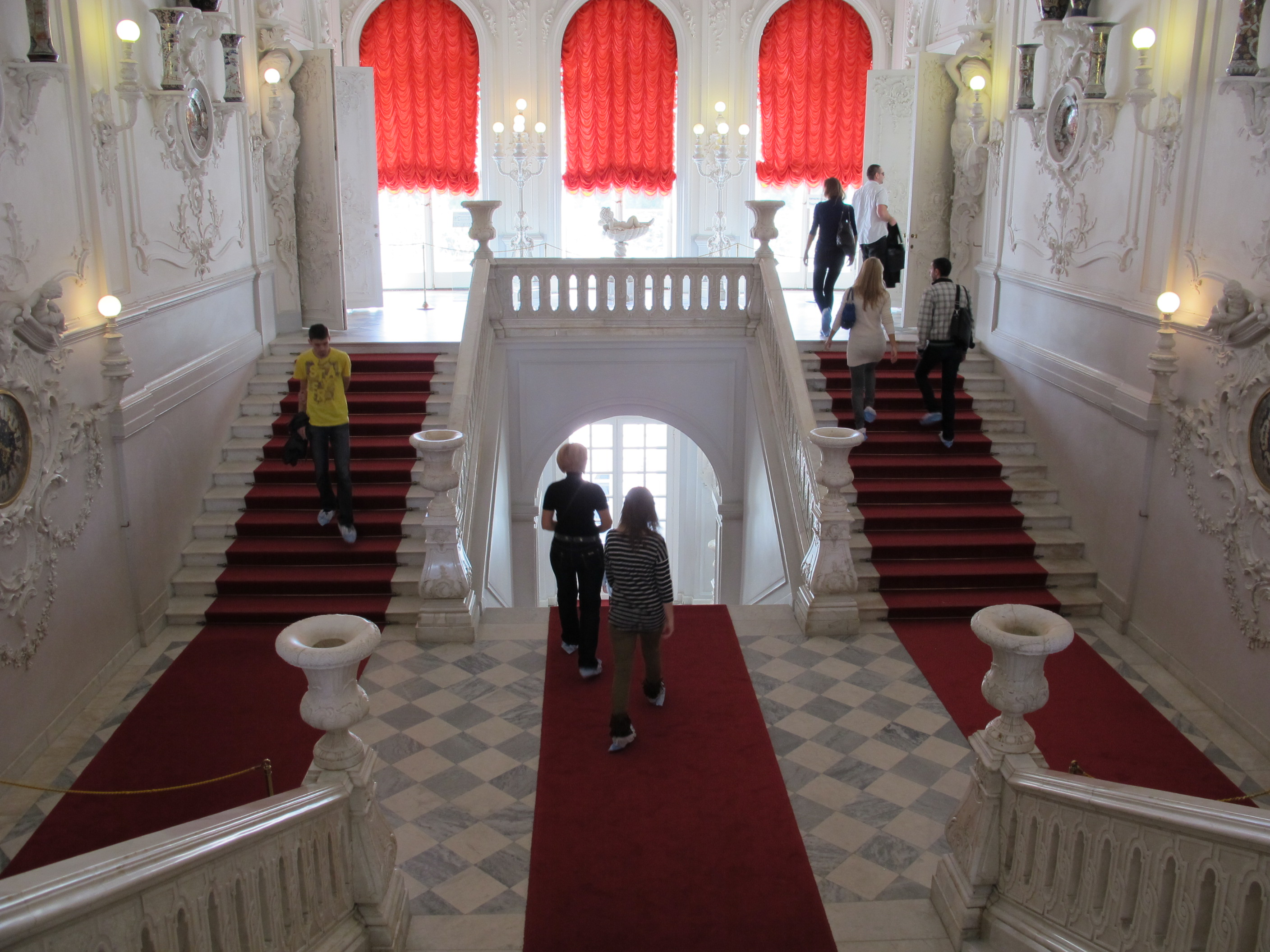 Front staircase of the Catherine Palace